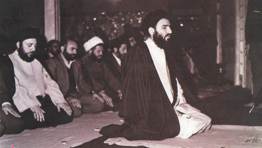 Mahmoud Hashemi Shahroudi